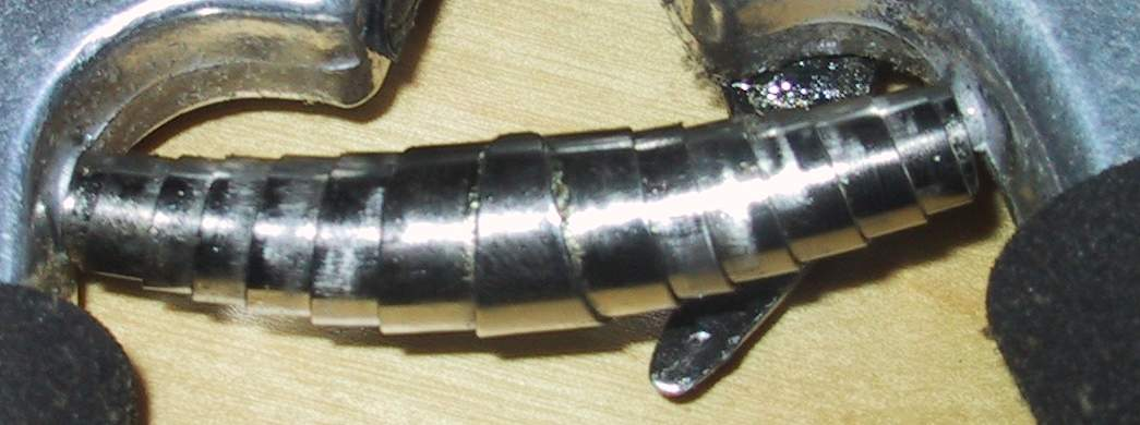 Originally uploaded by User talk:Old Moonraker, File:Volute spring.jpg copied to Wikimediacommons by Namazu-tron; Picture by me, Old Moonraker.